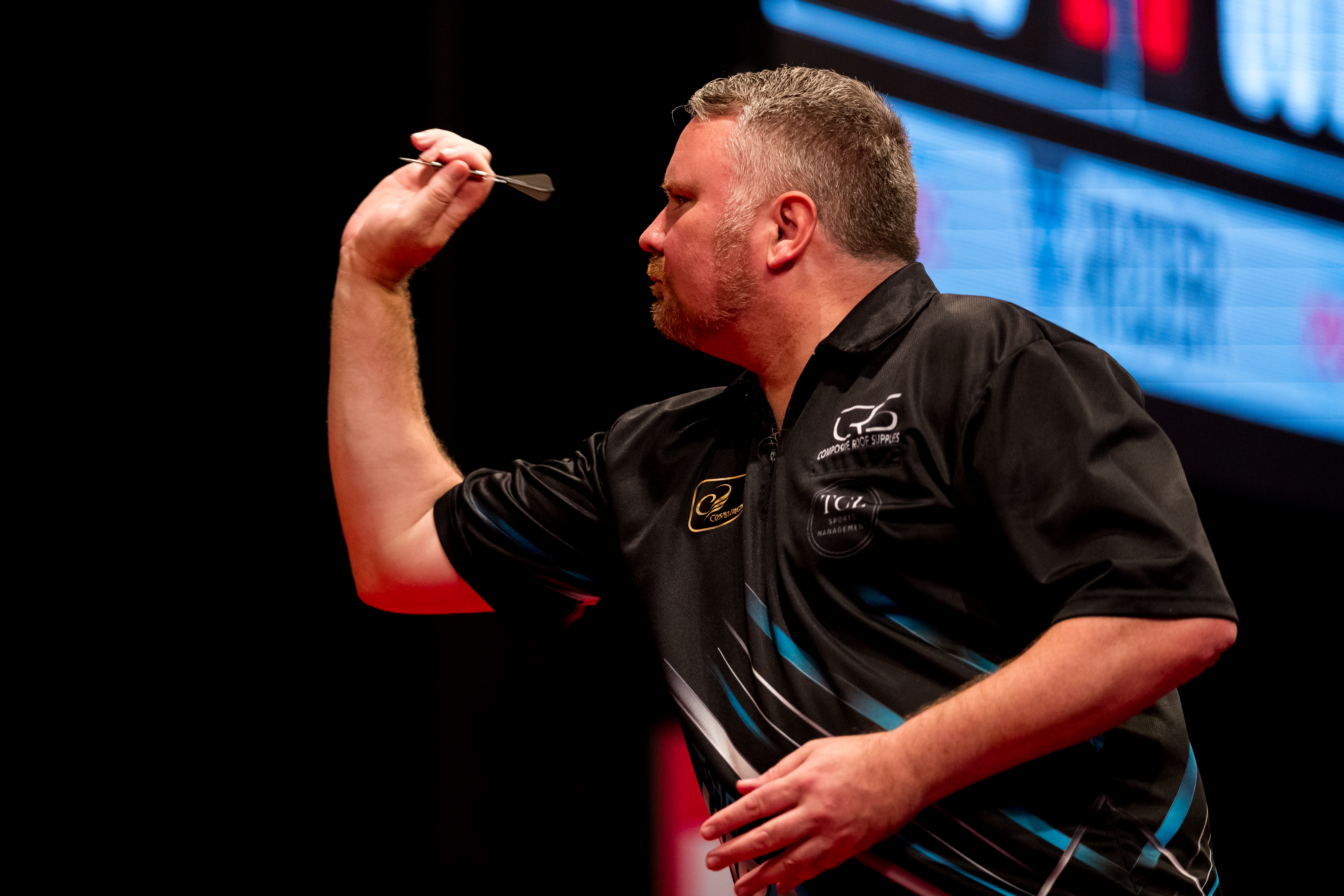 Gerwyn Price 6:3 Simon Stevenson during PDC Europe Darts Matchplay at Maimarkthalle, Mannheim, Baden-Württemberg, Germany on 2019-09-07, Photo: Sven Mandel